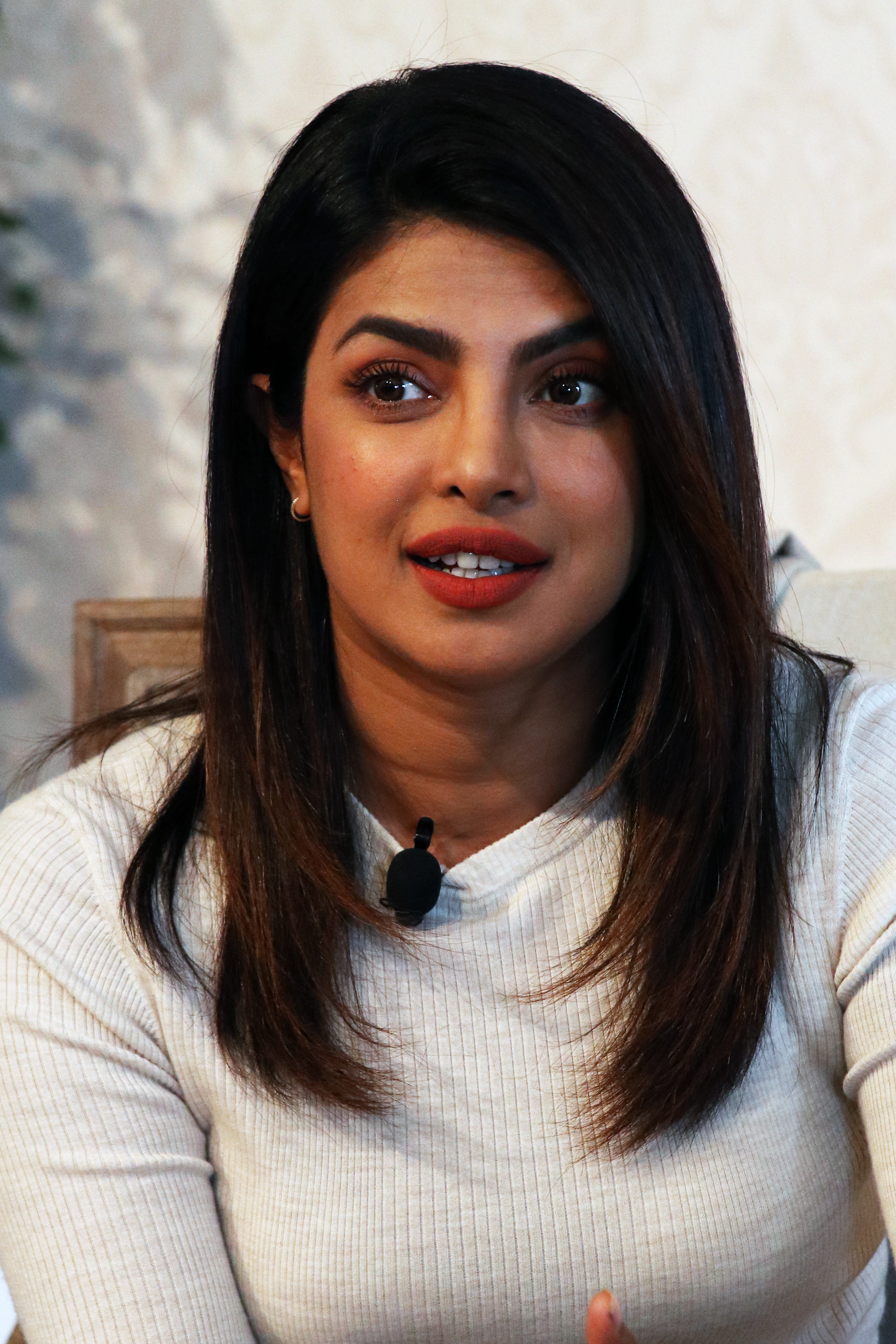 Priyanka Chopra at the 2018 Global Education and Skills Forum in Dubai.